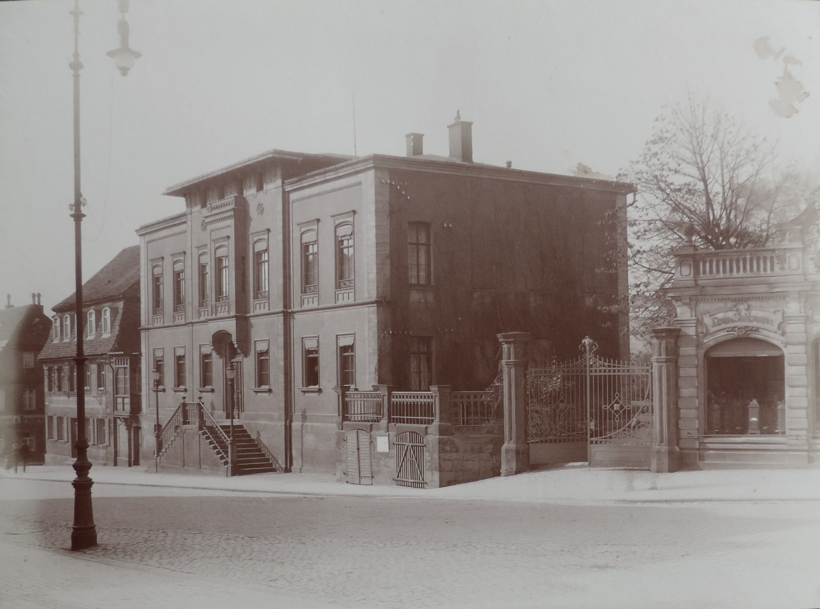 Views and photos of Bayreuth, Germany, gifted to Ferdinand I of Bulgaria to commemorate his 25-year rule. Private property, 1911.